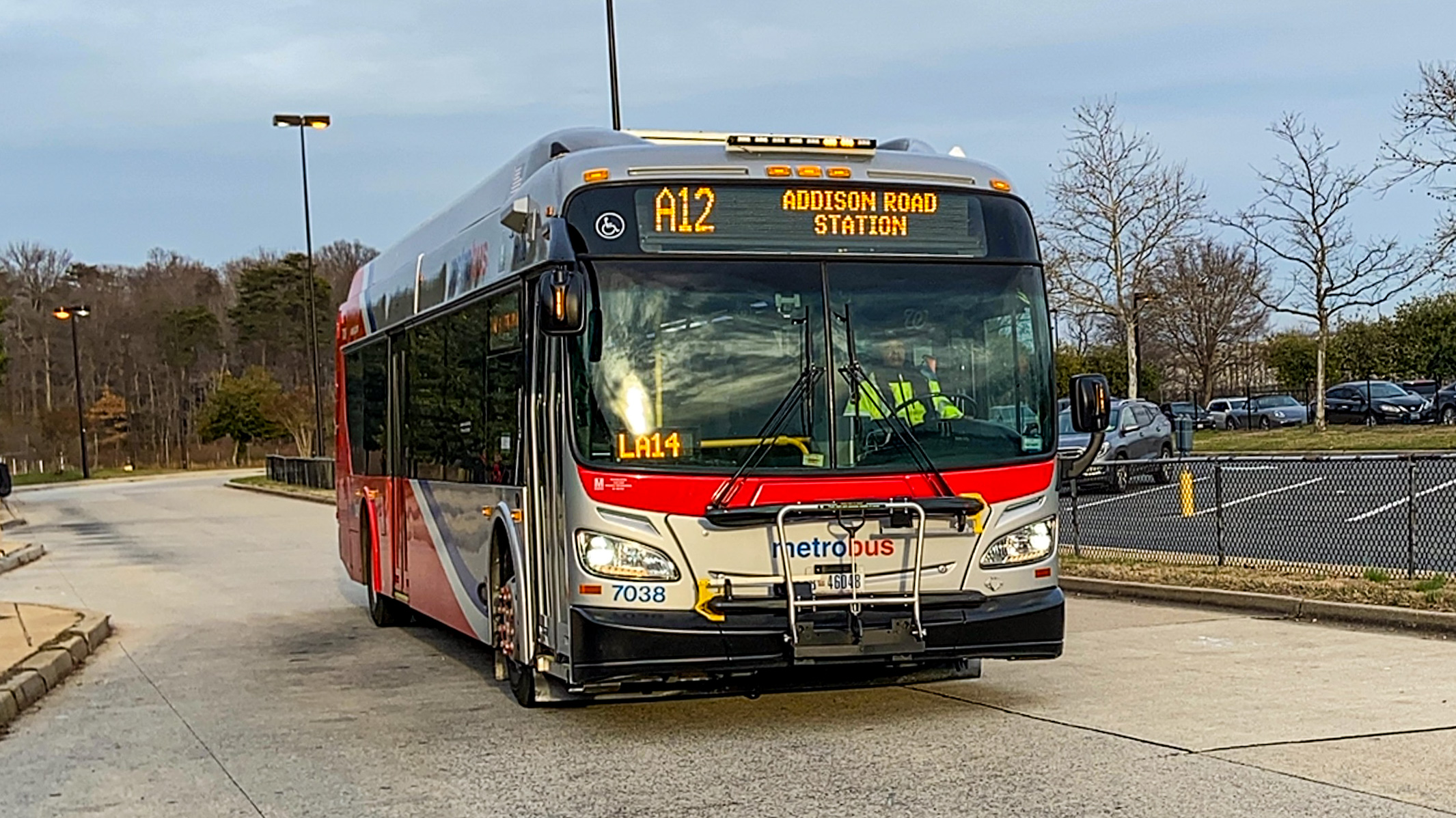 WMATA New Flyer XDE40 7038 on Route A12